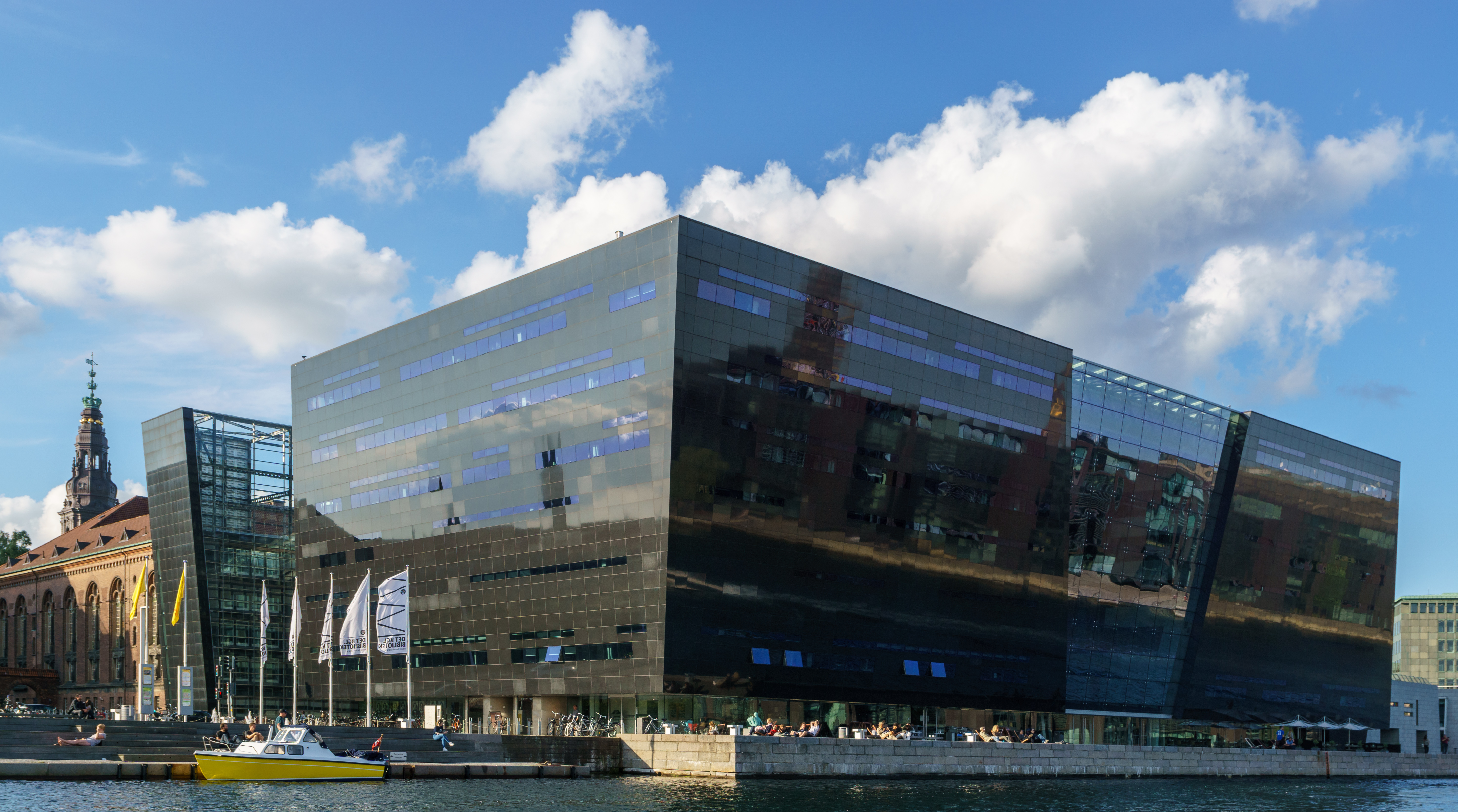 The Black Diamond, Copenhagen